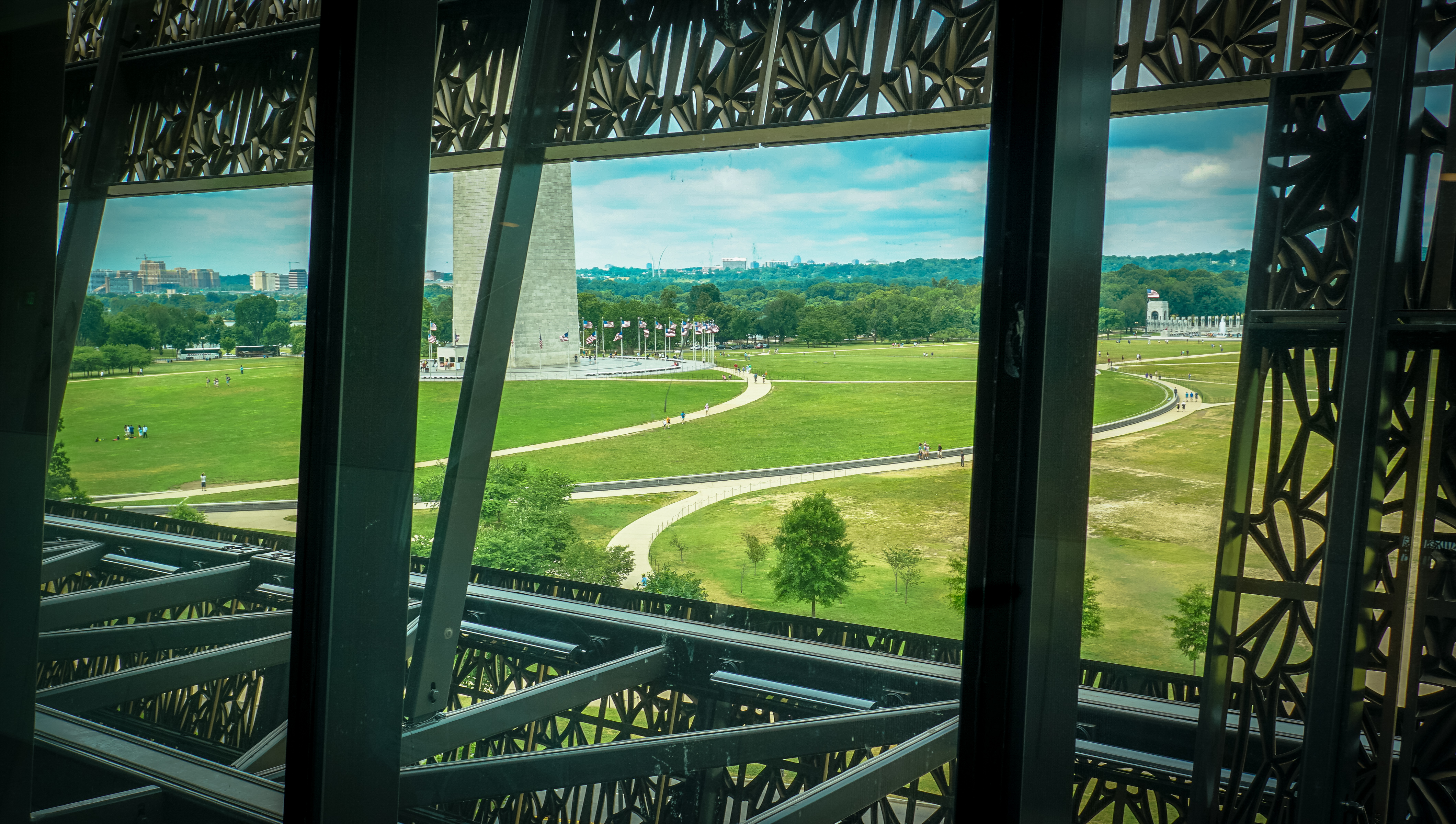 National Museum of African American History and Culture (NMAAHC), Washington, D.C.